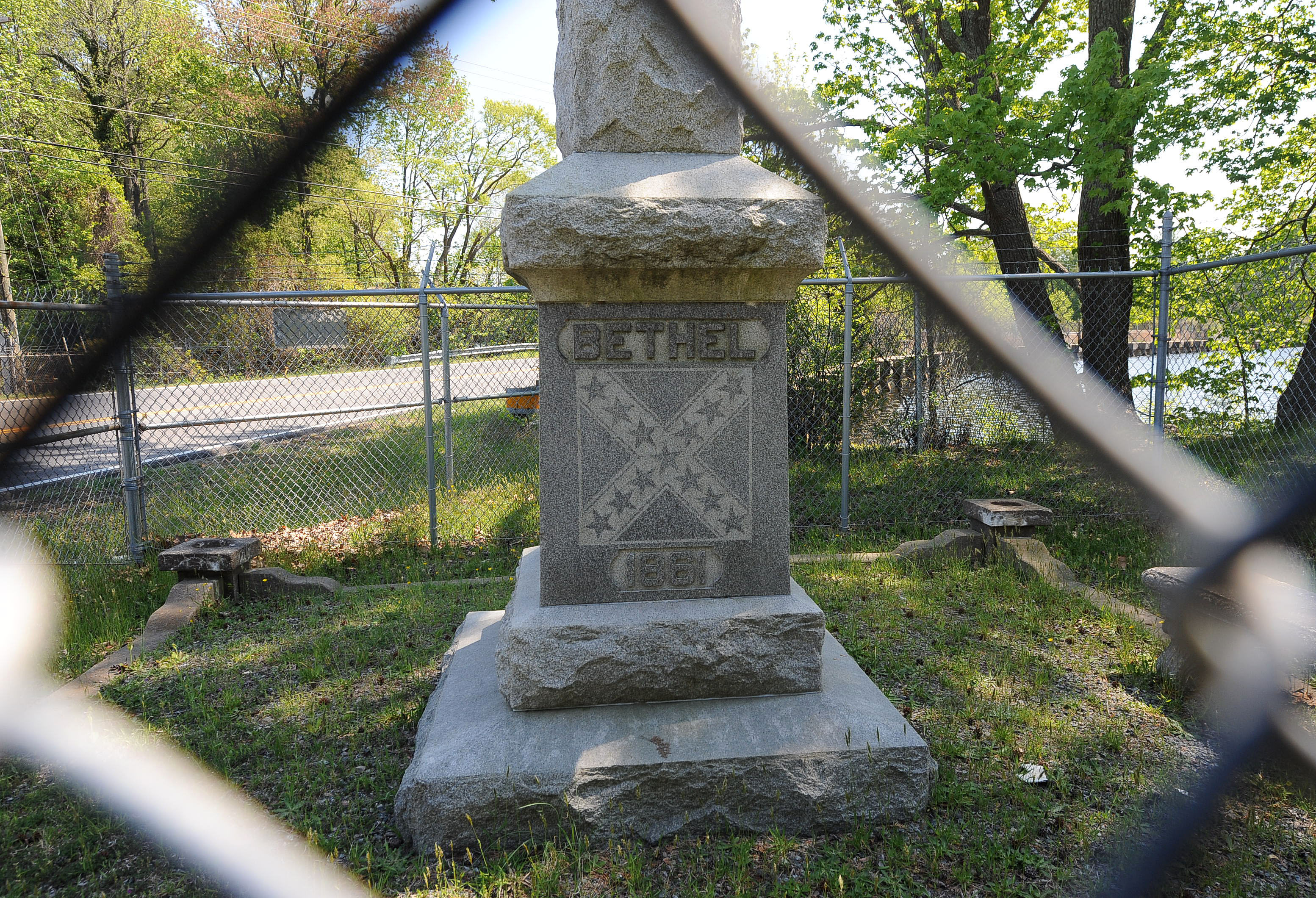 LANGLEY AIR FORCE BASE, Va. -- An obelisk commemorating the 100-year anniversary of the Battle of Big Bethel is shown through the fence at the Big Bethel Cemetery April 15. The obelisk was donated by the United Daughters of the Confederacy in 1961 in remembrance of the lives lost during the battle, which occurred at the site of the Big Bethel reservoir. (U.S. Air Force photo/Airman Rebecca Montez)